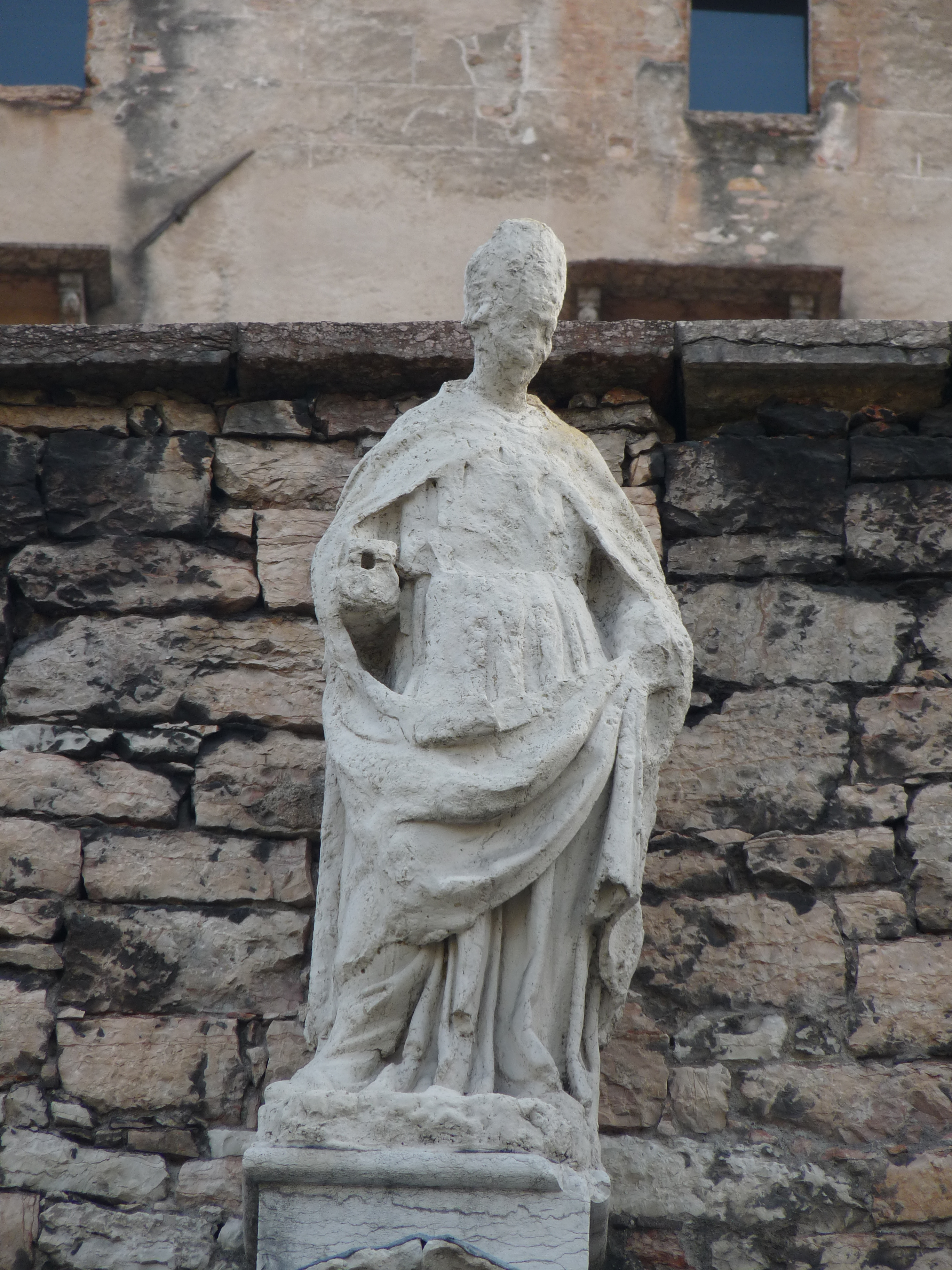 Trento (Italy): statue of Saint Vigilius over the Porta di San Vigilio (Door of Saint Vigilius).